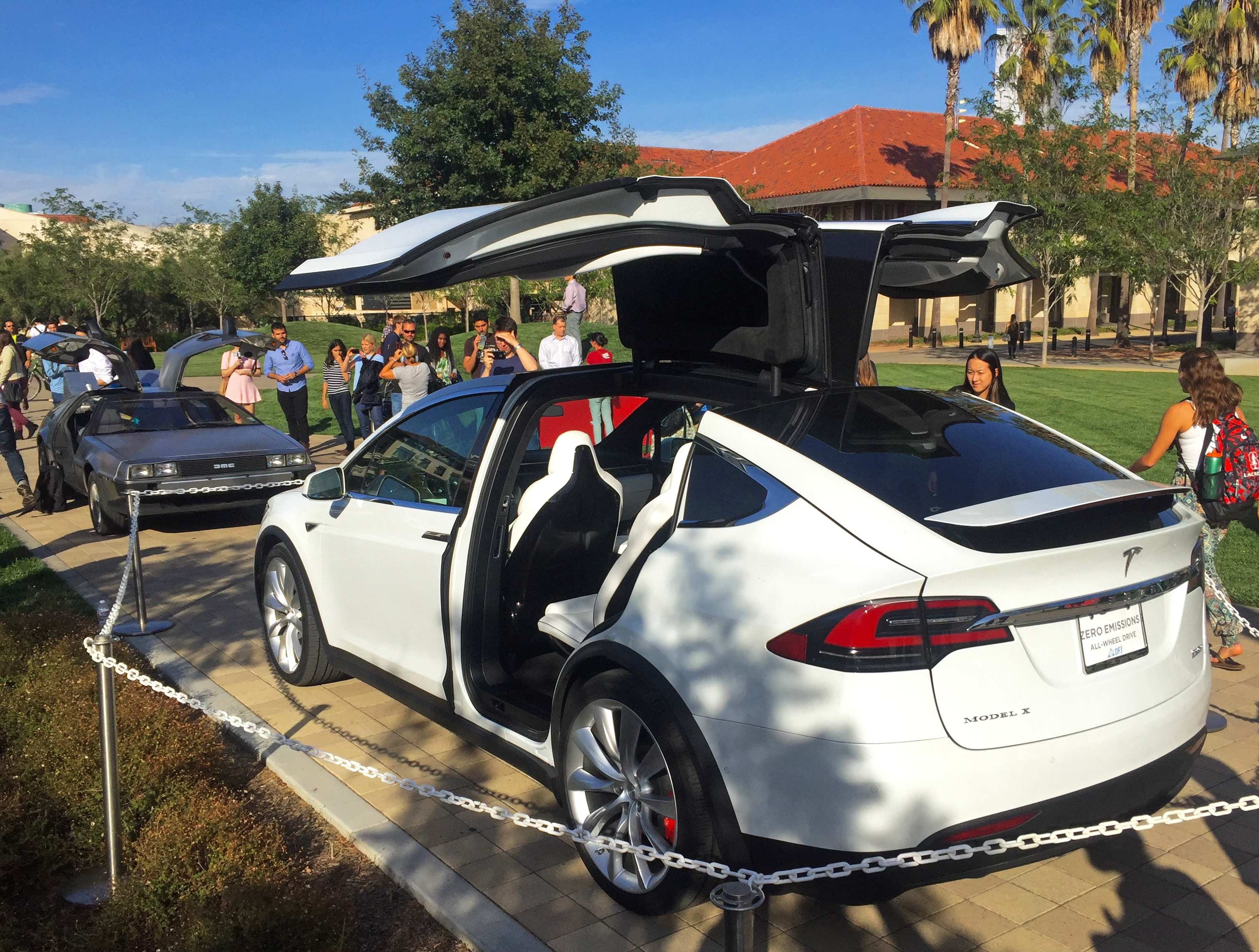 Model X vs. DeLorean "The Doors that Go Like This" With a “Backing the Future” theme as it was the 30-year anniversary of the movie Back to the Future, as well as the 30th year of DFJ. In the movie series, they jump to THE FUTURE… and it’s October 2015. So we had a tricked out DeLorean, and staged perhaps the first face-off of the gull-wing doors and the Model X falcon-wing doors